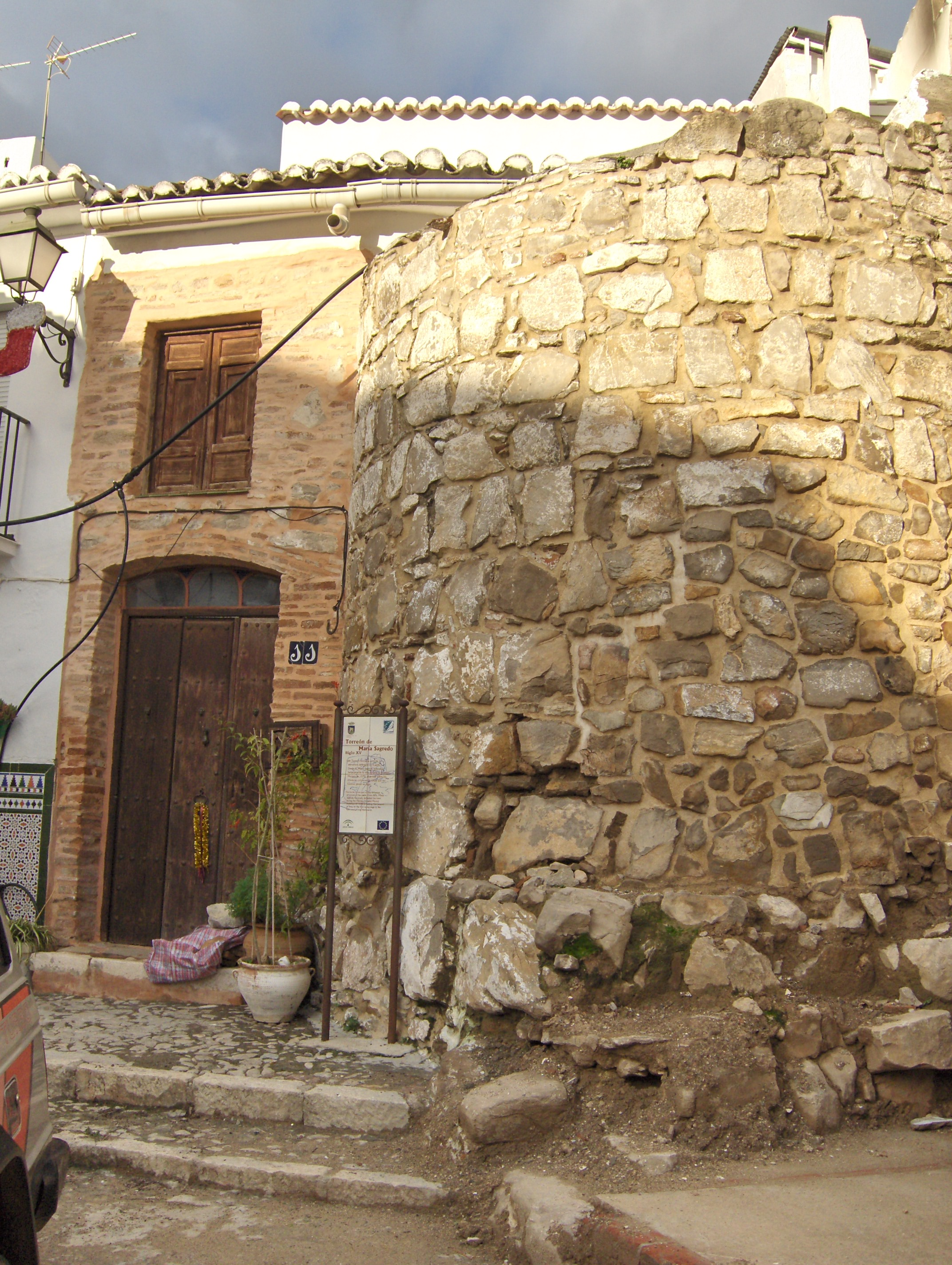 María Sagredo Tower, Alozaina